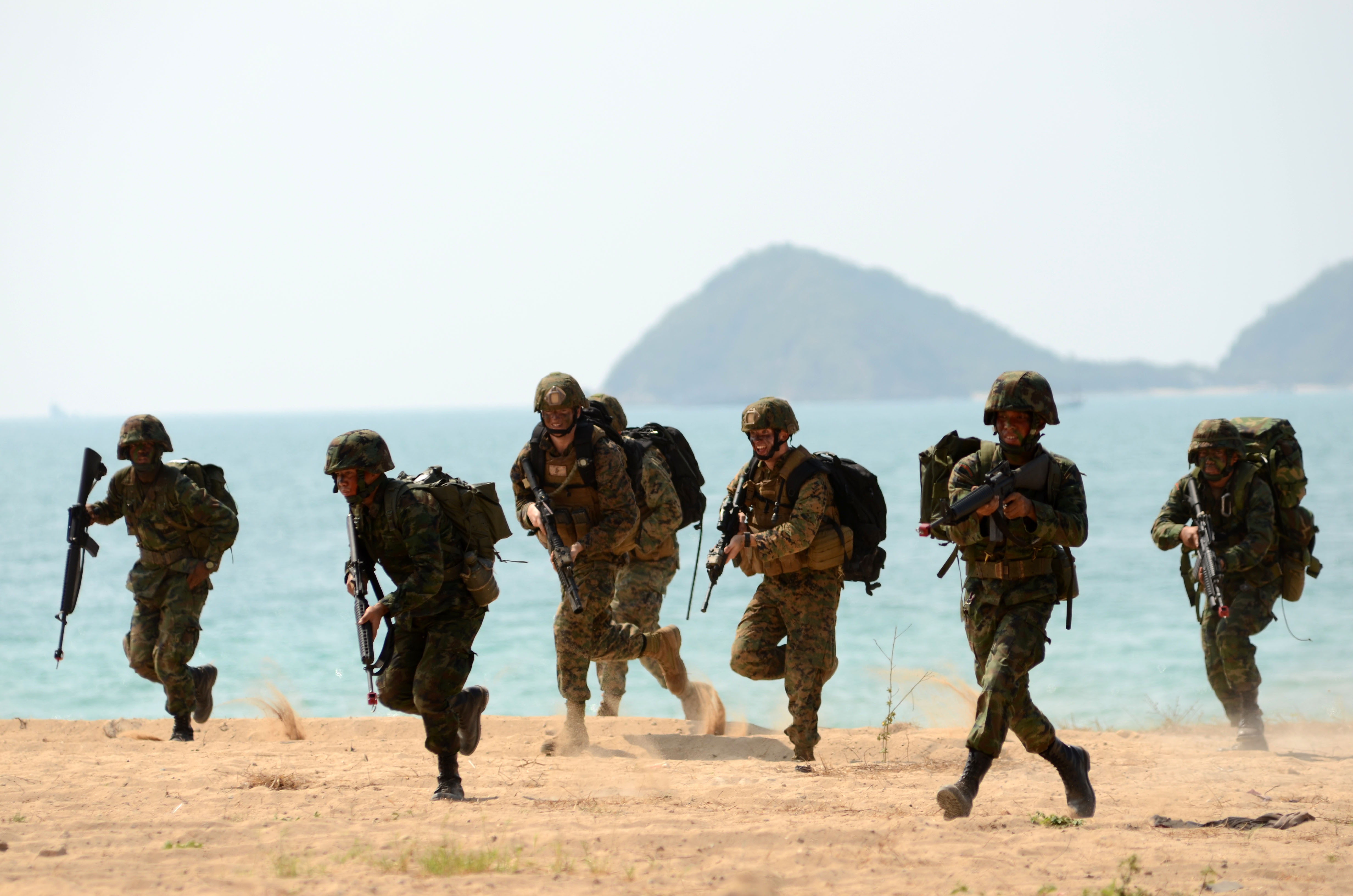 Royal Thailand Marines, along with U.S. infantry Marines with Battalion Landing Team, 2nd Battalion, 5th Marine Regiment, 31st Marine Expeditionary Unit, 3rd Marine Expeditionary Brigade Forward, III Marine Expeditionary Force, assault the beachhead in a amphibious assault raid here Feb. 10, during Exercise Cobra Gold 2011. Cobra Gold is a regularly scheduled multinational training exercise designed to improve partner nation interoperability.